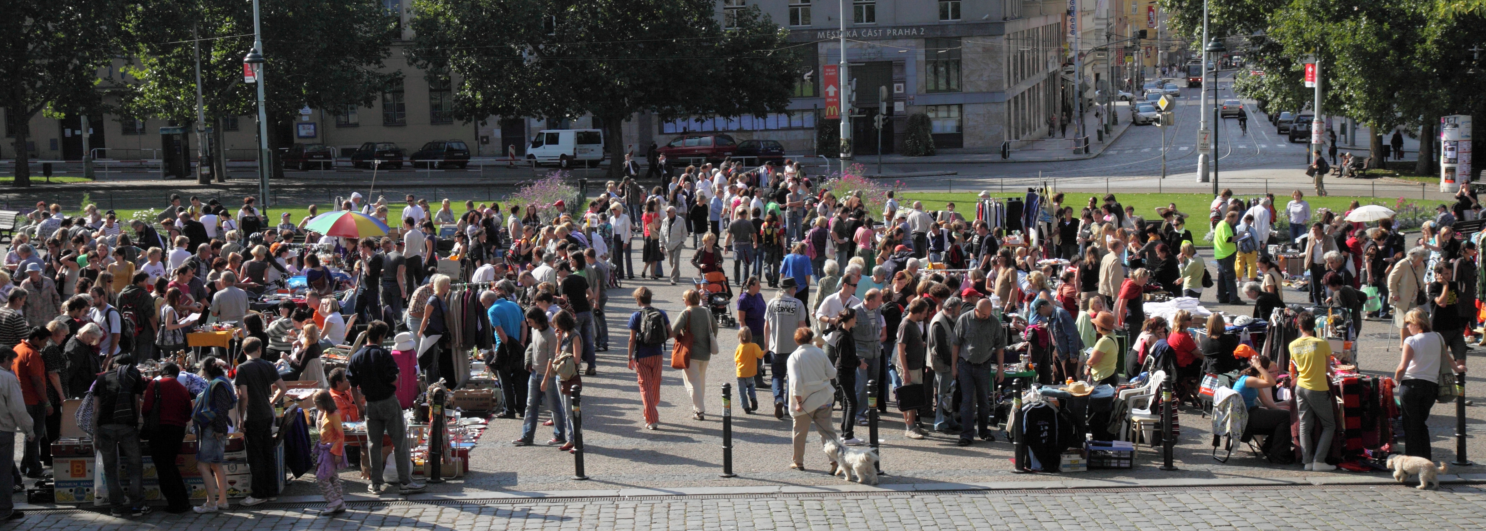 Flea market on Náměstí Míru in Prague